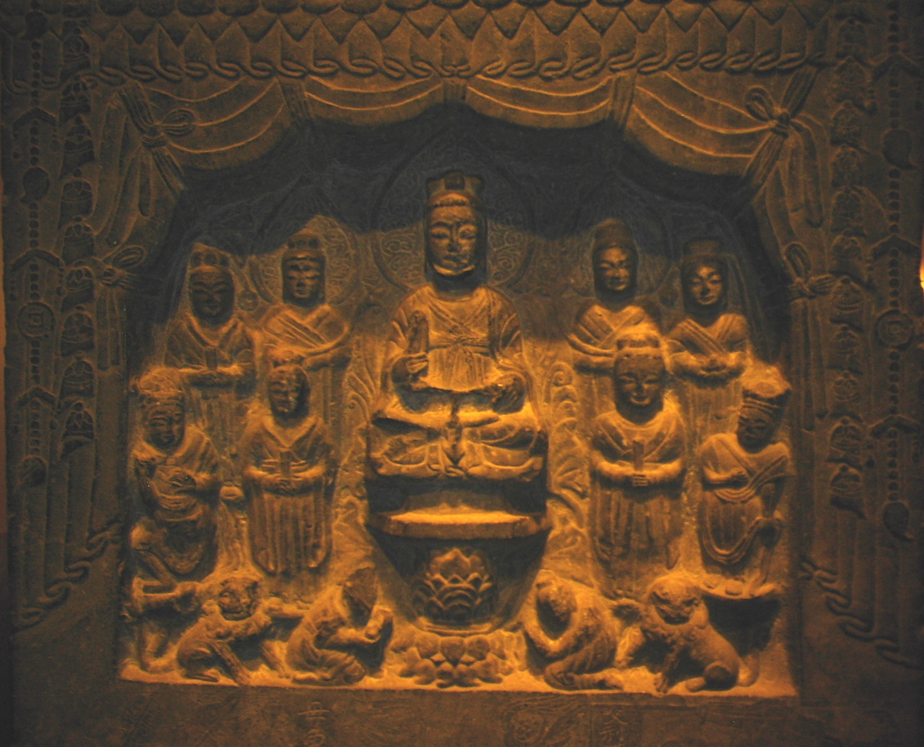 A stele made of limestone. From the Chinese Northern Zhou Dynasty, inscribed and dated to 572 AD. From the Freer and Sackler Galleries of Washington D.C. Author: User:PericlesofAthens / reuploaded by Nyo. Date: August 3, 2007